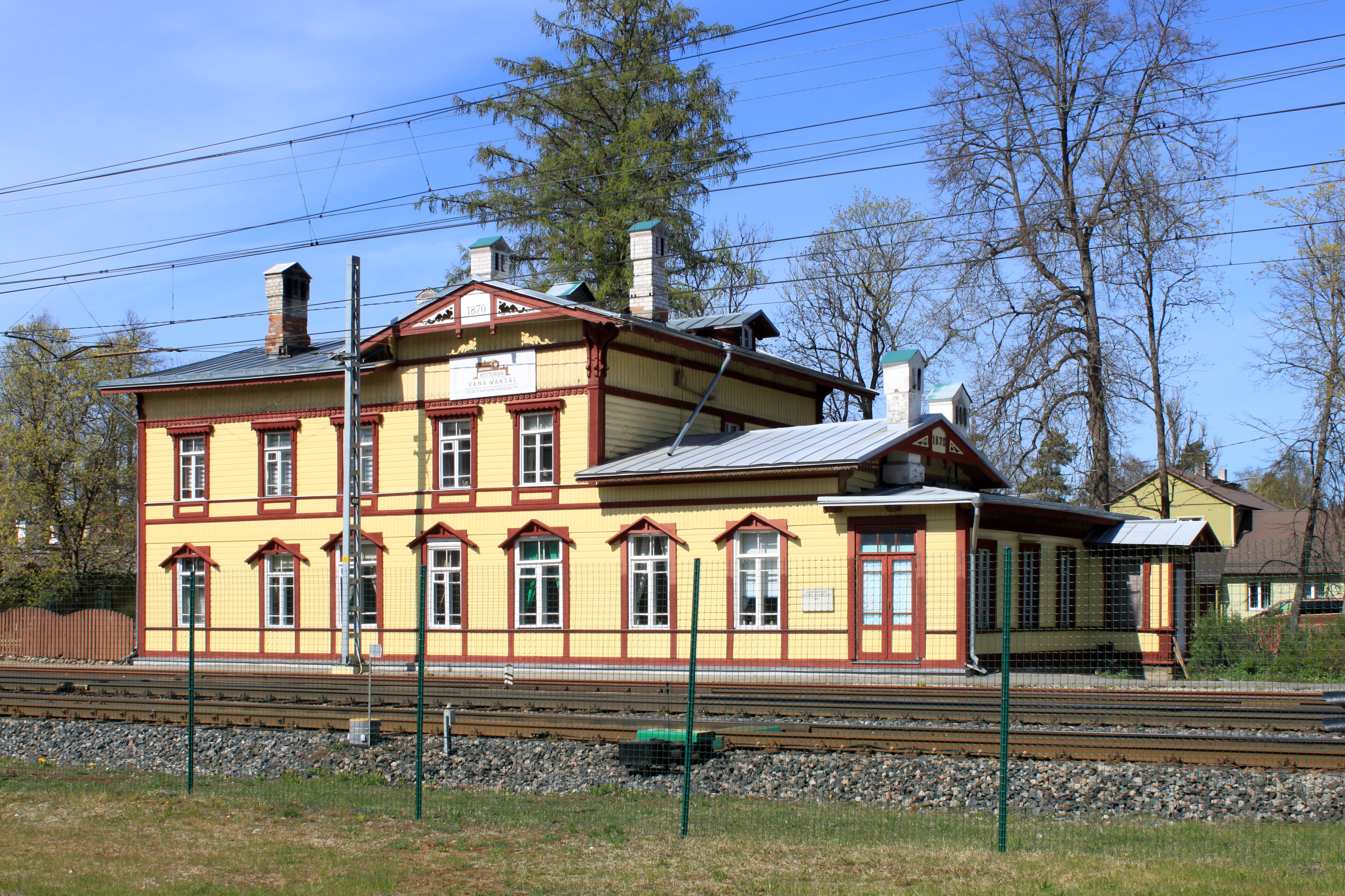 Aegviidu small town railway station, now restaurant “Vana Waksal” (“Old station house”), Estonia